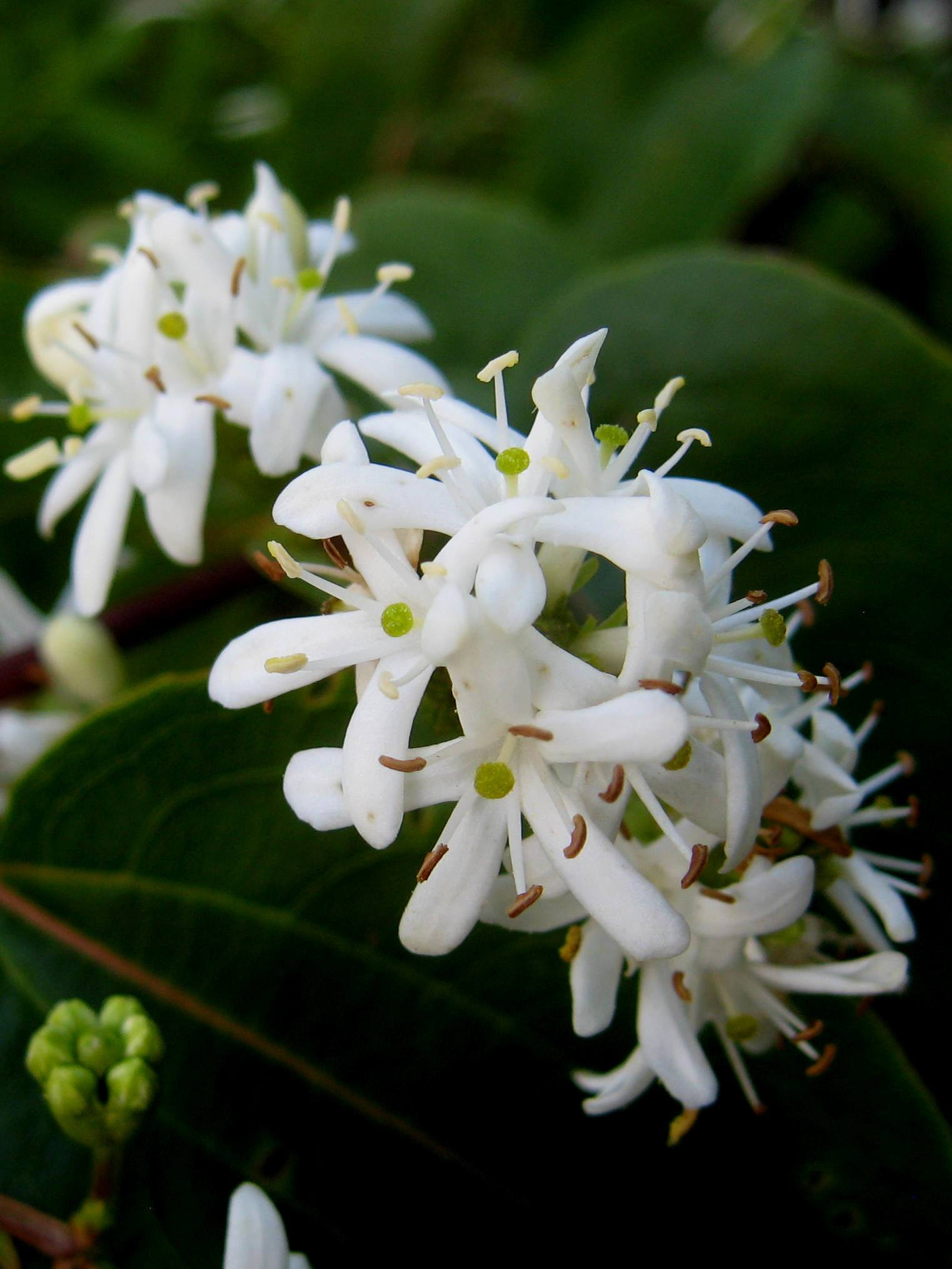 Photo taken in author's garden at Portchester, UK, Sept. 2012